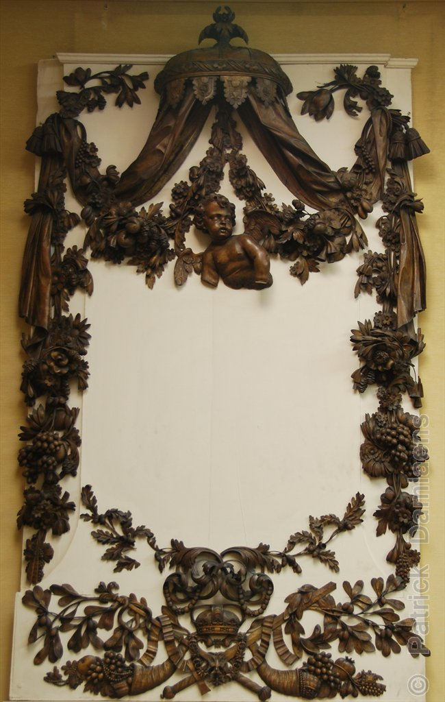 sculpture by Peter van Dievoet (1661-1729)